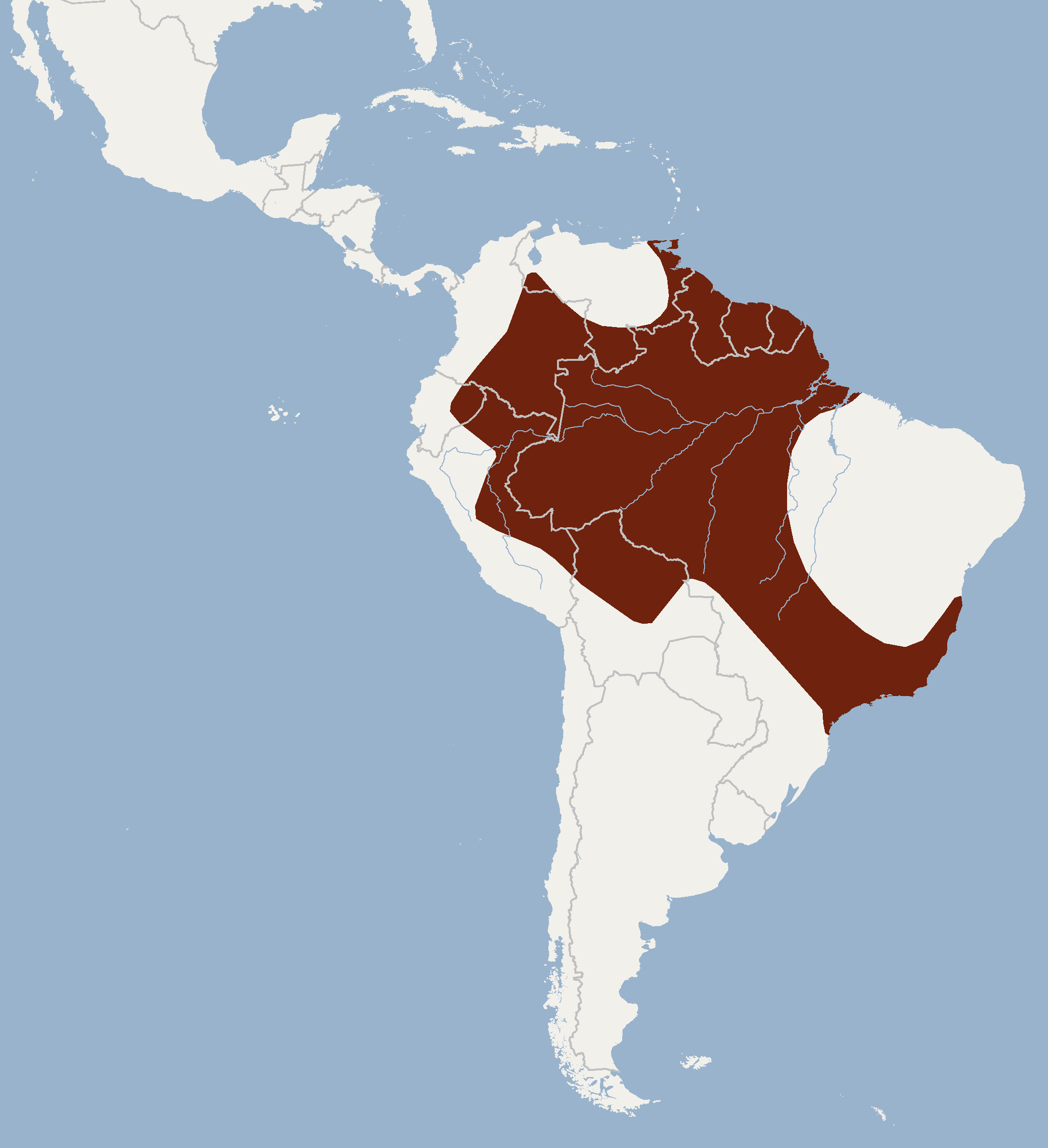 According to Gardner, 2008